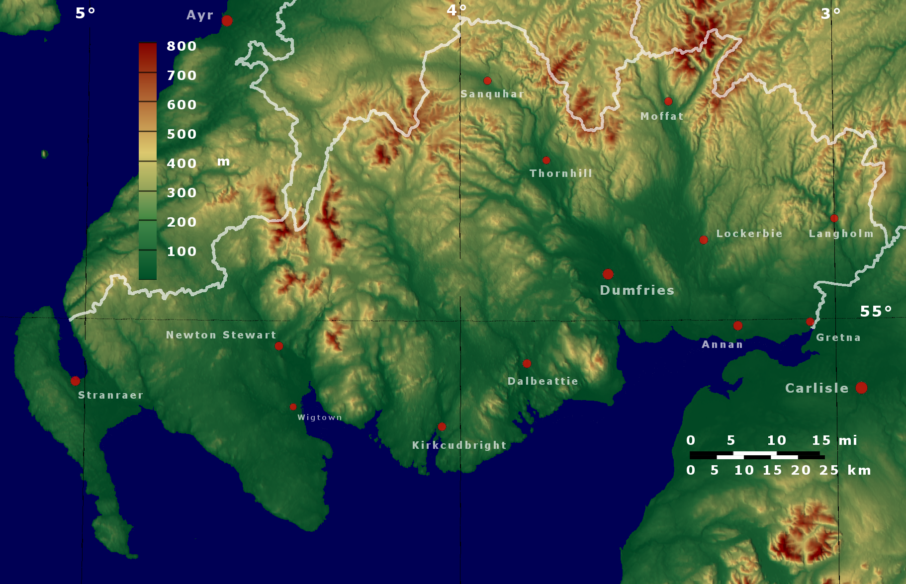 Map created with 3DEM from SRTM (